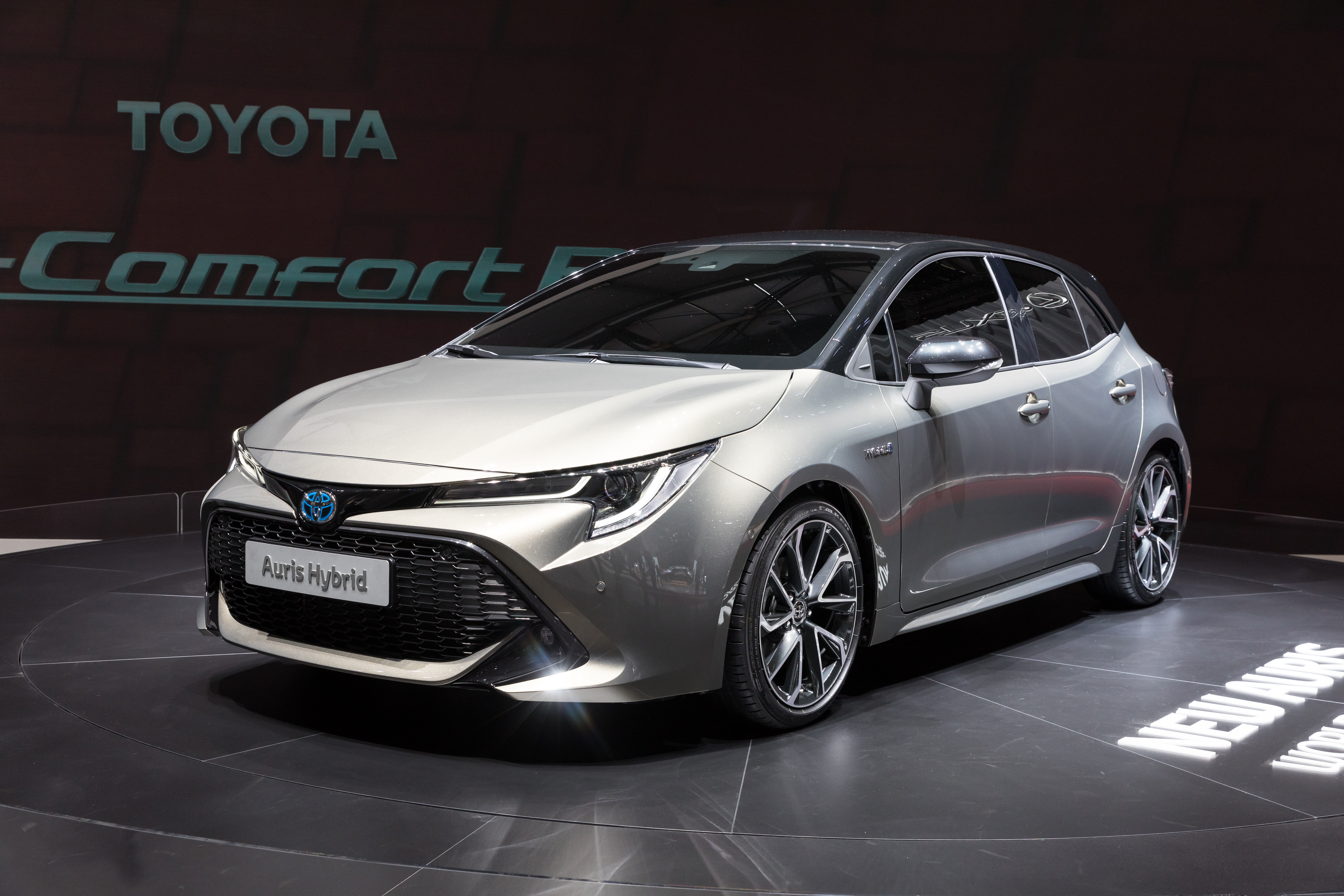 Geneva International Motor Show 2018